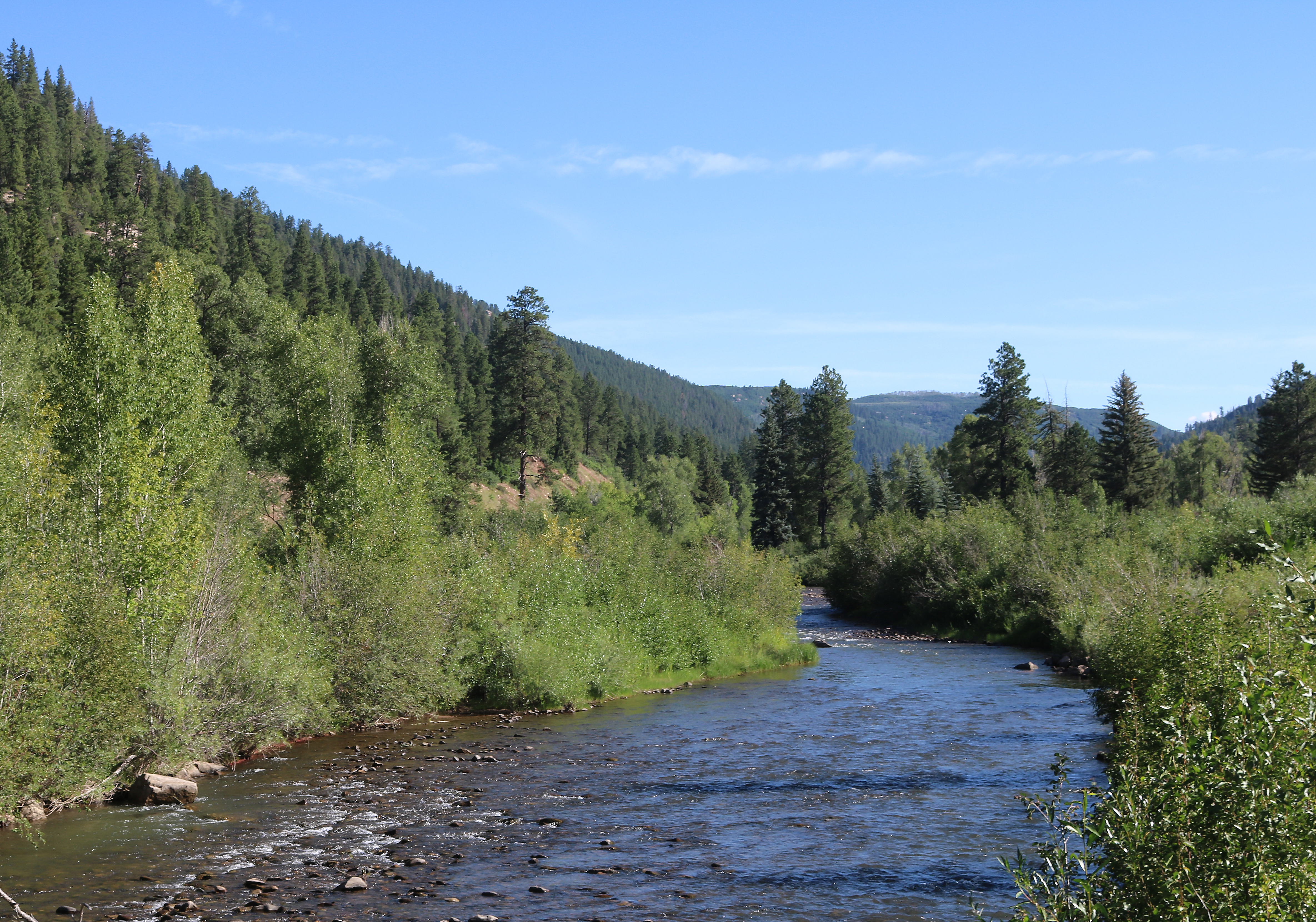 The West Dolores River. The view is from a bridge on Colorado State Highway 145 at a spot just before the river's confluence with the Dolores River.